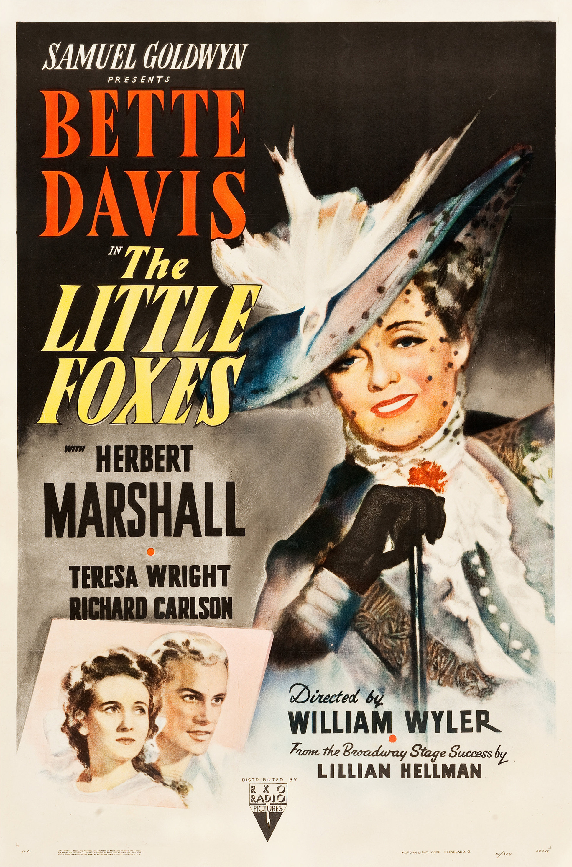 Theatrical poster for the American release of the 1941 film Citizen Kane.